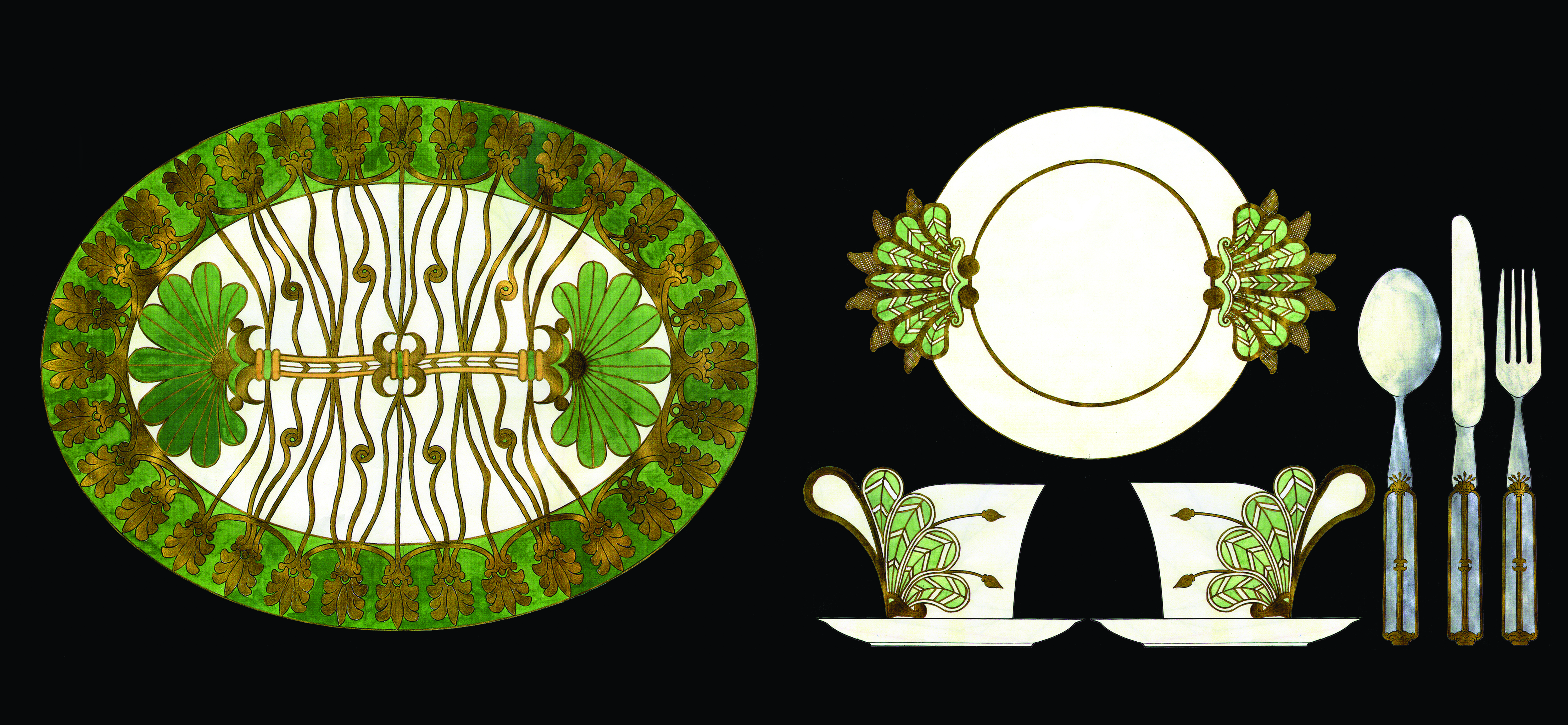 The Palm Banqueting Suite designed by Dr. Basil Al Bayati